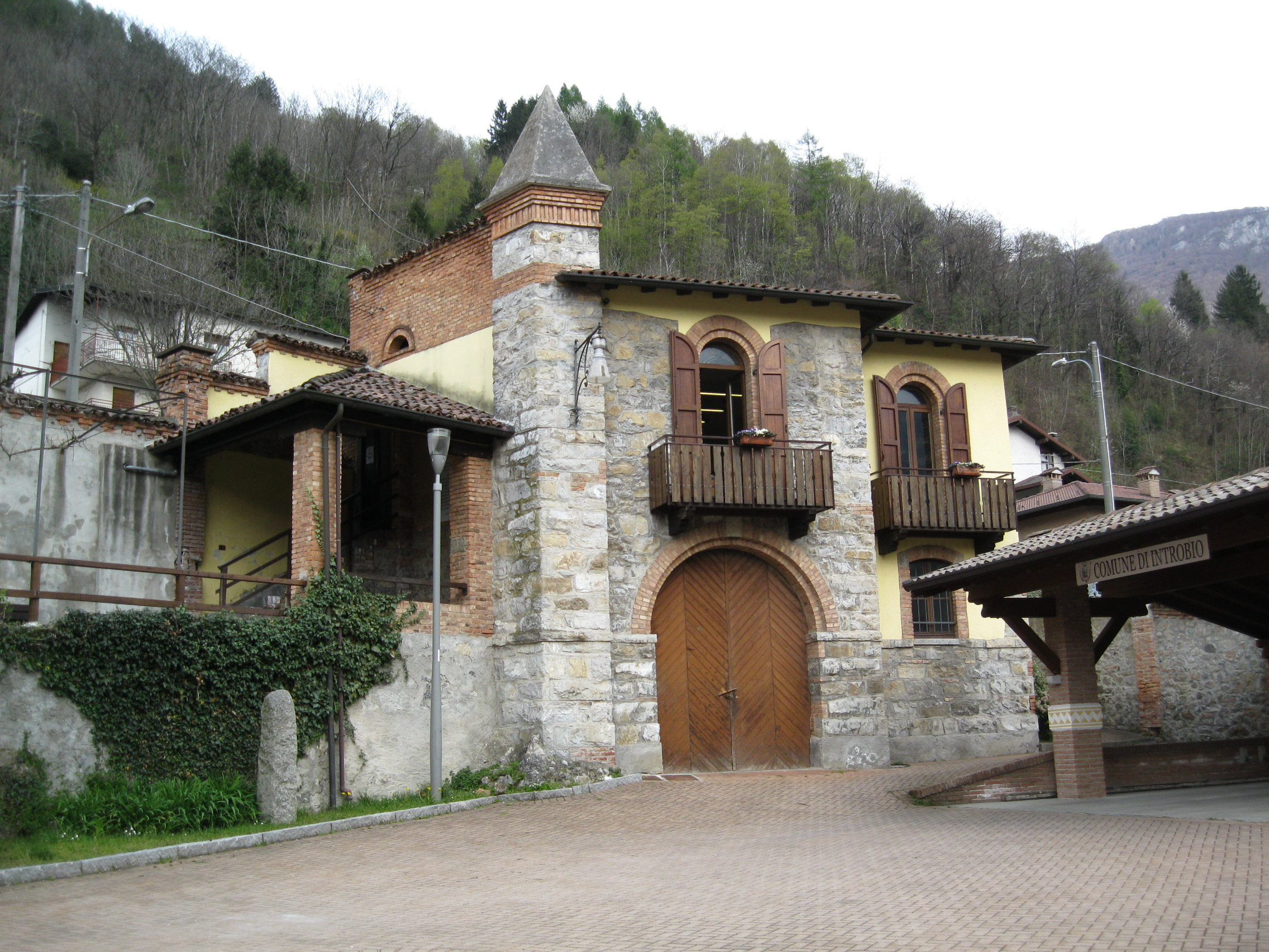 Introbio's lybrary, in a small town in Lombardy, Italy